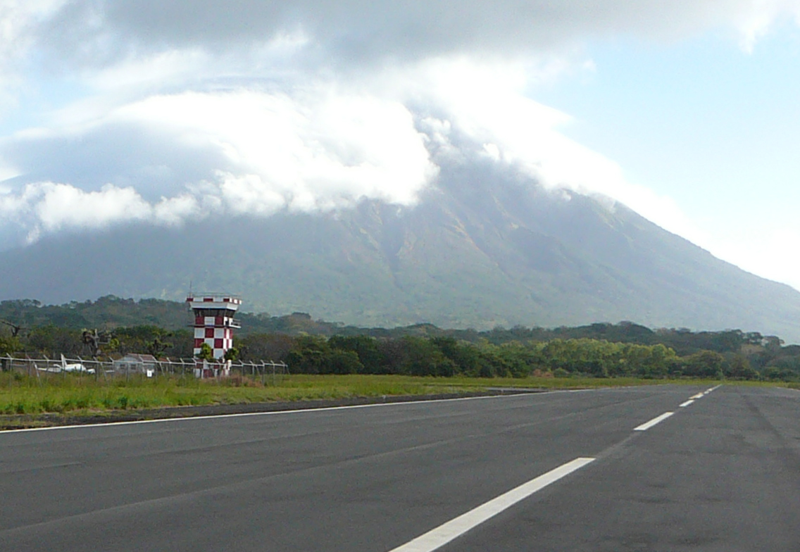 Ometepe Airport (MNLP), as seen from Carretera Sur (route 64), showing runway, control tower, and the Concepción volcano in the background.